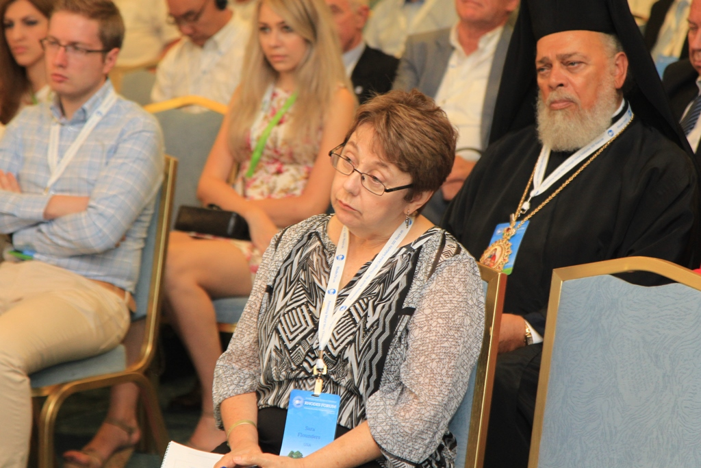 Preventing World War Through Global Solidarity: 100 Years On